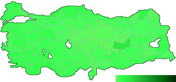 2007 Turkish election map showing the DP's results by il.